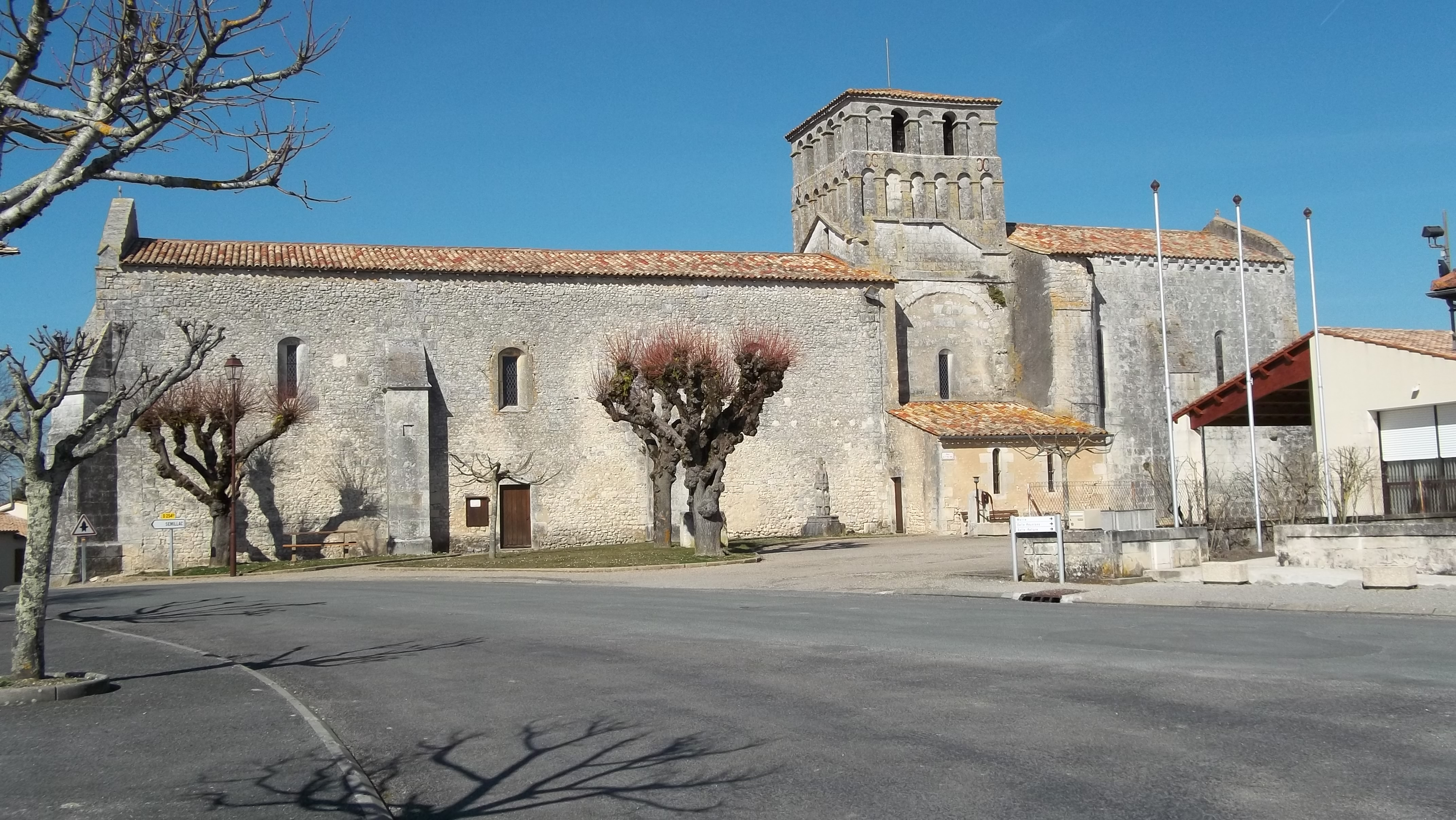 The Church in St Martial de Mirambeau, 17150 France